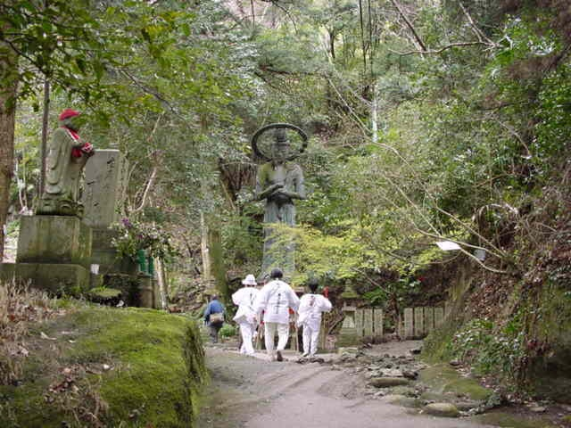 Iyadani-ji (Iyadani Temple) in Kagawa, Japan